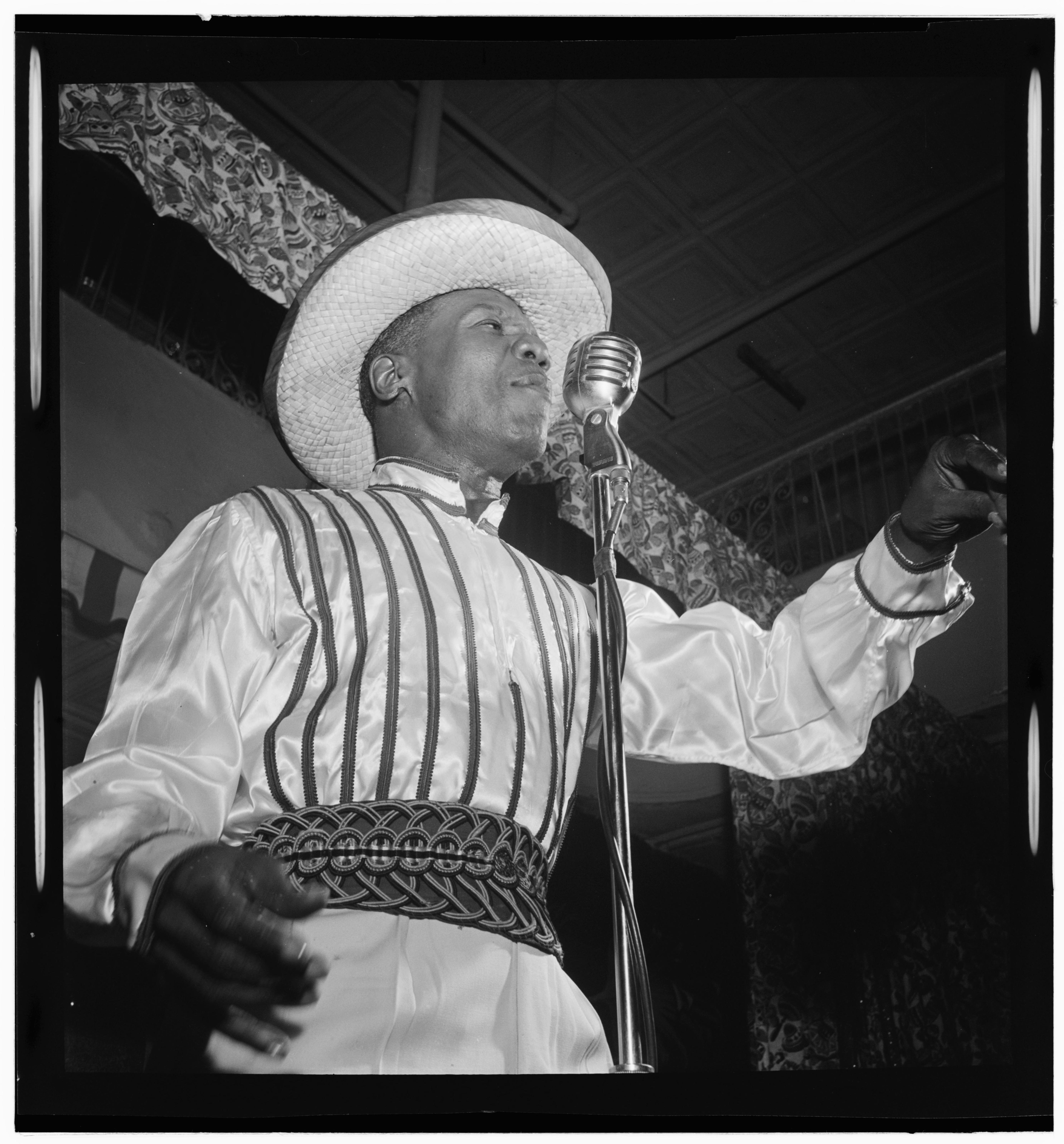 Wilmoth Houdini [Portrait of Calypso, between 1938 and 1948] 1 negative : b&w ; 2 1/4 x 2 1/4 in. Notes: Gottlieb Collection Assignment No. 355 Purchase William P. Gottlieb Forms part of: William P. Gottlieb Collection (Library of Congress). Subjects: Calypso musician Calypso musicians--1930-1950. Format: Portrait photographs--1930-1950. Film negatives--1930-1950. Rights Info: Mr. Gottlieb has dedicated these works to the public domain, but rights of privacy and publicity may apply. Repository: (negative) Library of Congress, Prints & Photographs Division, Washington D.C. 20540 USA, Part Of: William P. Gottlieb Collection (DLC) 99-401005 General information about the Gottlieb Collection is available at Persistent URL: Call Number: LC-GLB23- 1028